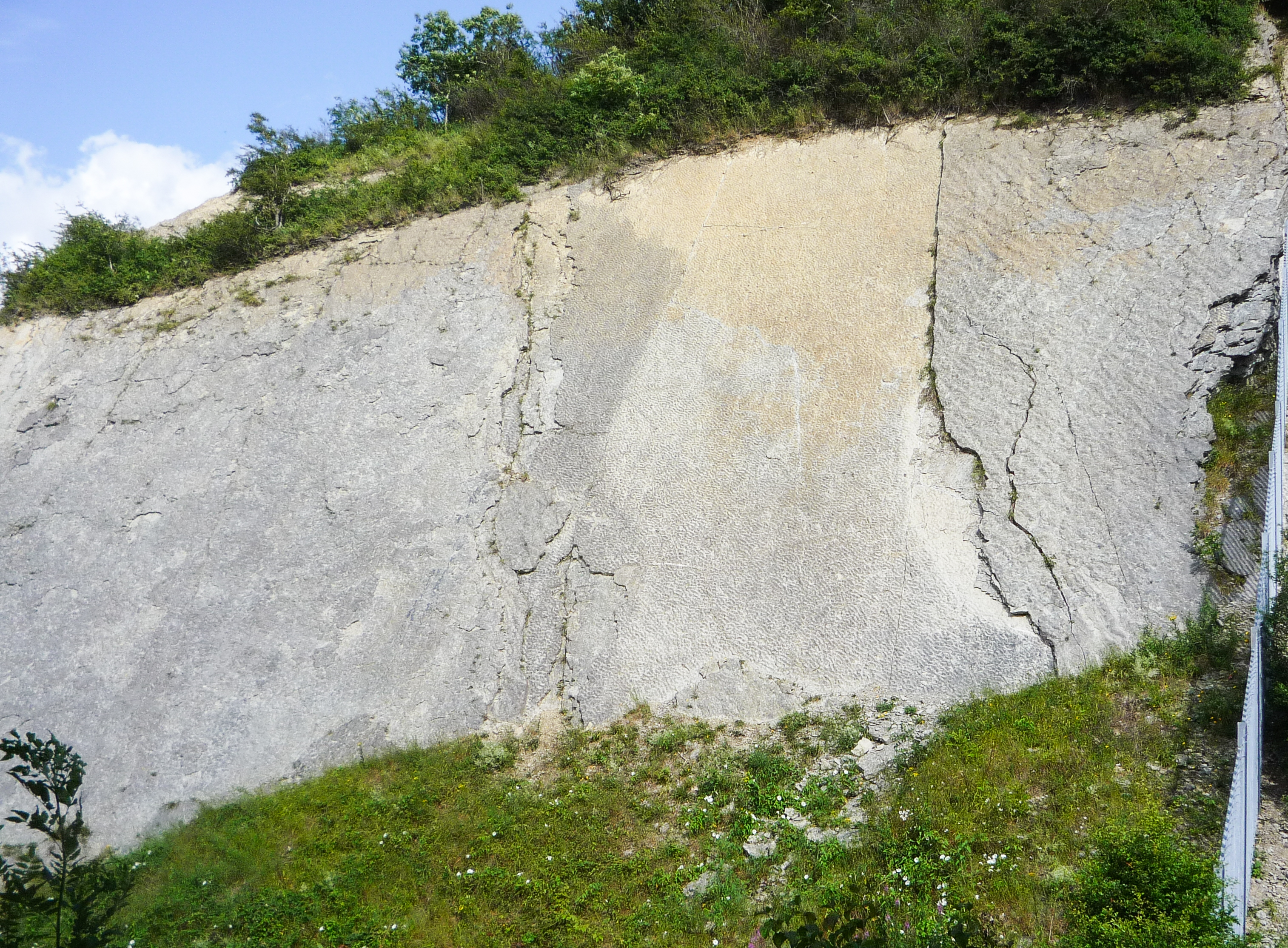 Seashore ripples preserved in an inland vertical rock-face at Wren's Nest National Nature Reserve, Dudley, England.